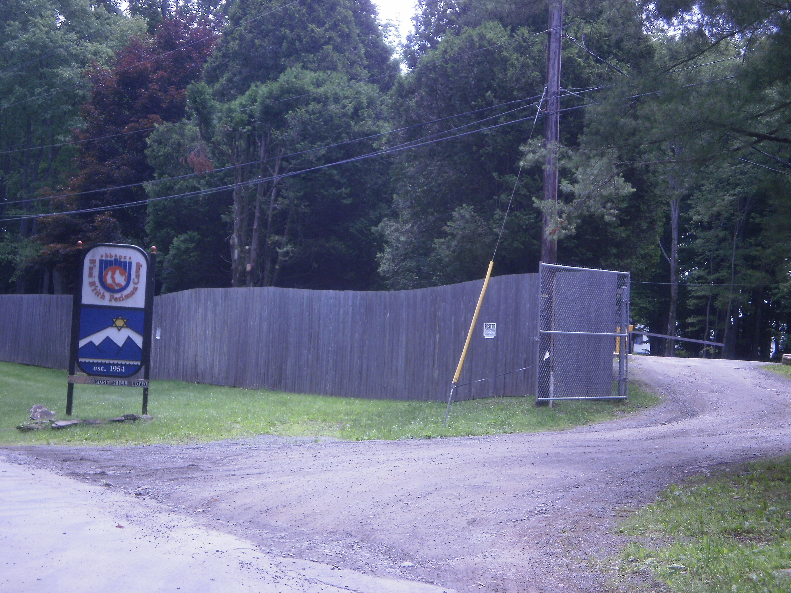 Picture of the entrance to B'nai B'rith Perlman Camp and sign.